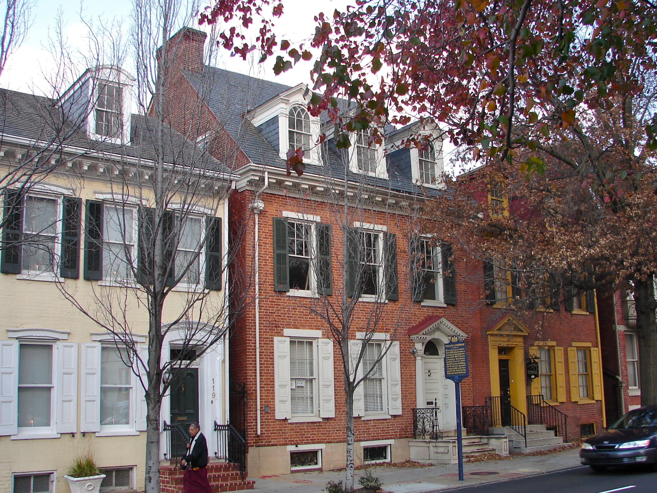 William C. Goodridge House in York, Pennsylvania. PHMC marker in front of the House. Goodridge was a former slave who became as successful businessman in York and ran a station on the Underground Railroad.